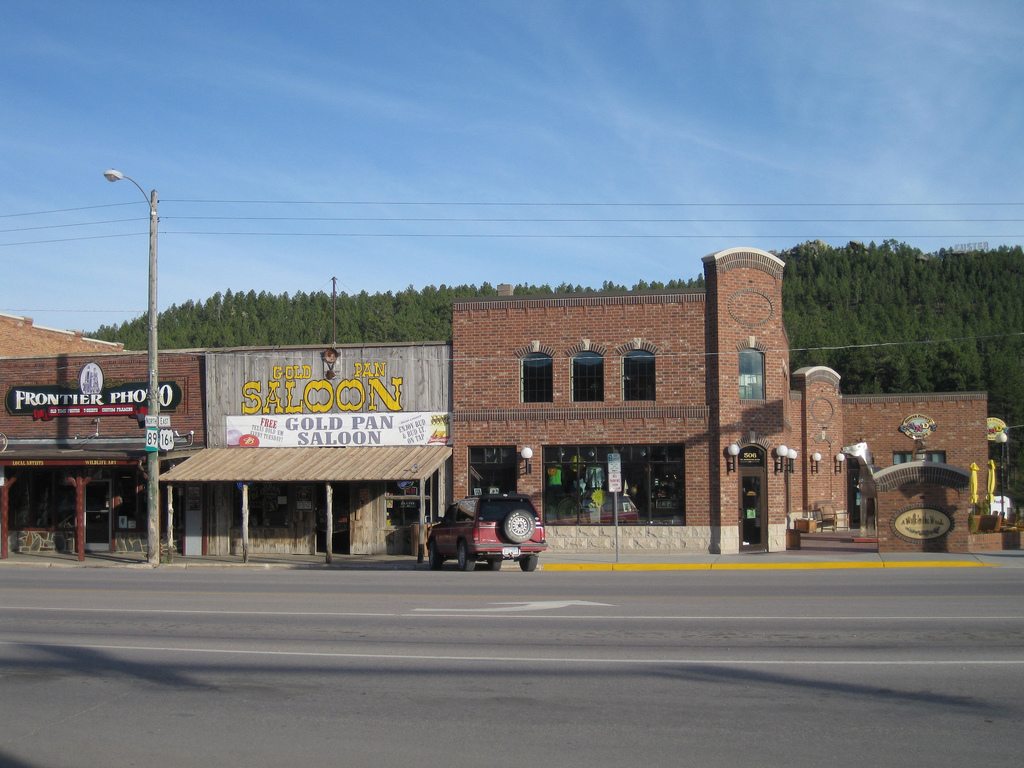 Shops in Custer, South Dakota, United States